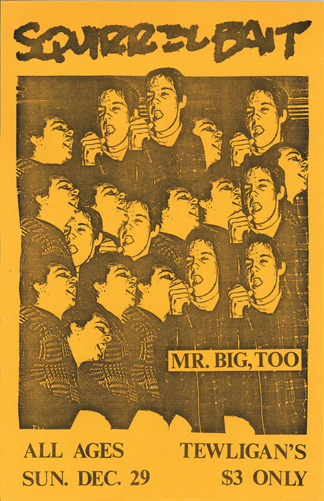 Flier promoting a show by the Louisville, Kentucky–based punk band Squirrel Bait at the venue Tewligans.